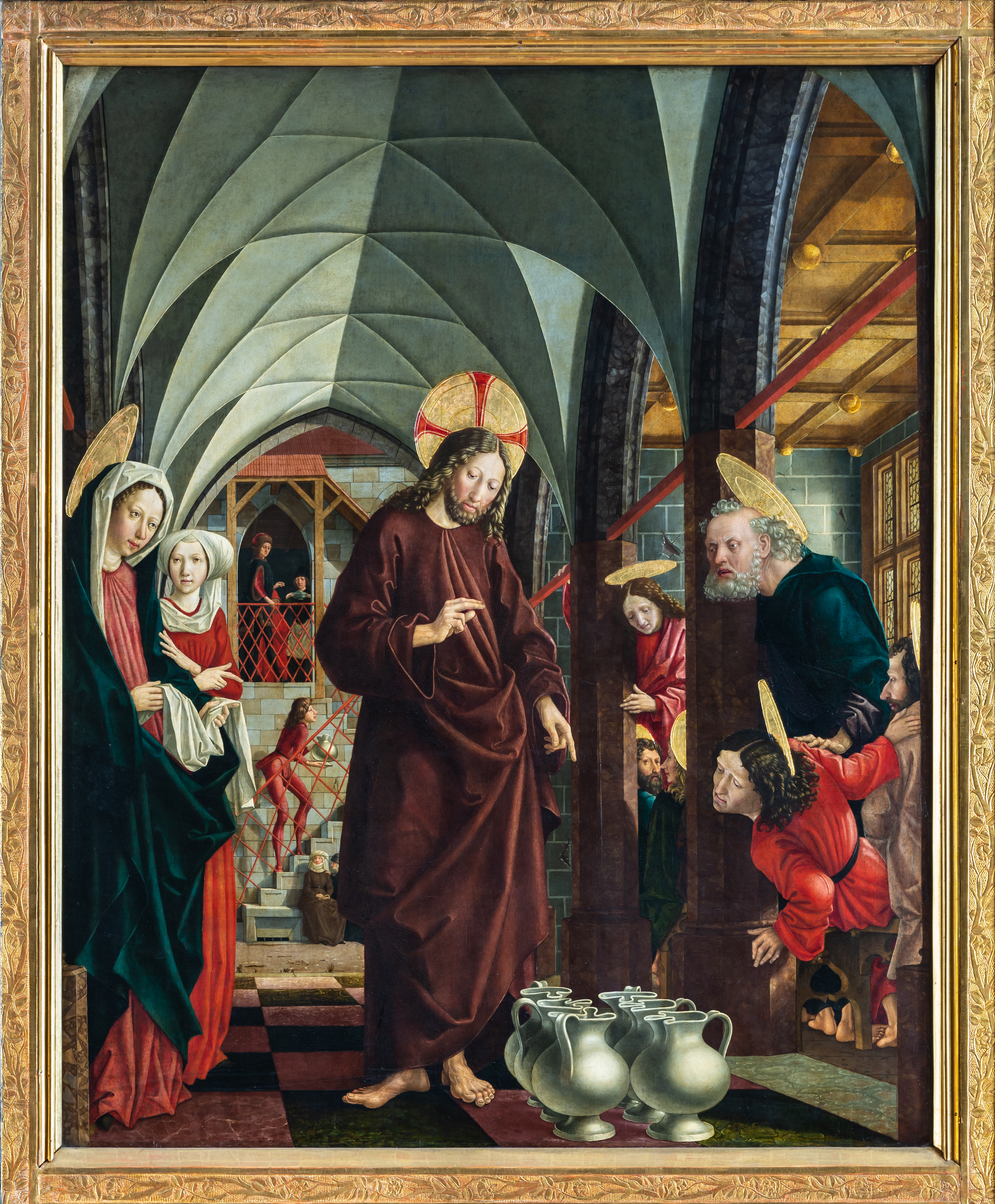 The Wedding at Cana at the St. Wolfgang Altarpiece of the Catholic parish- and pilgrimage church St. Wolfgang im Salzkammergut, Upper Austria. Michael Pacher, 1471–79, set up in 1481.